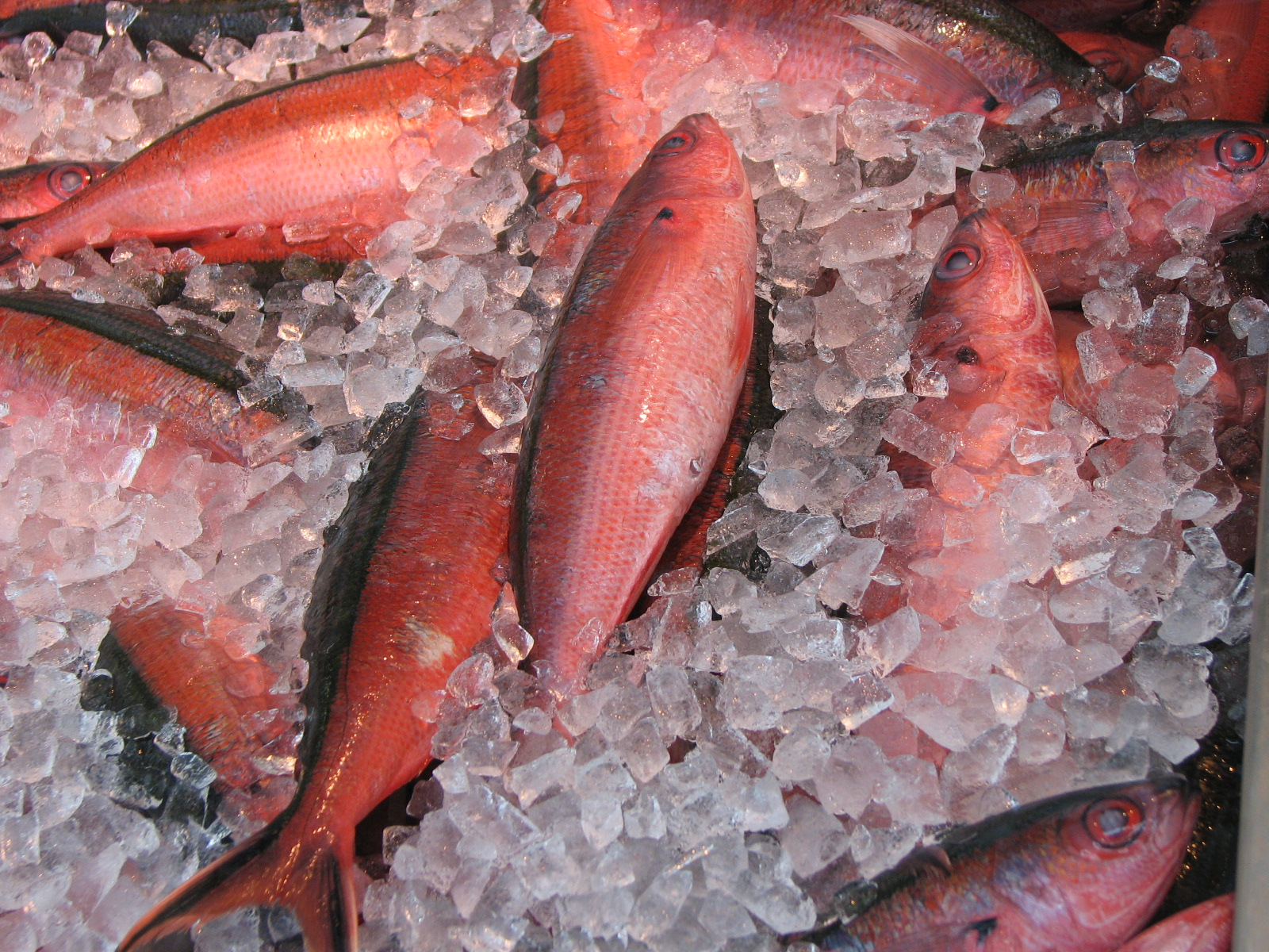 Pterocaesio tile at supermarket in Ishigaki is. Okinawa, Japan